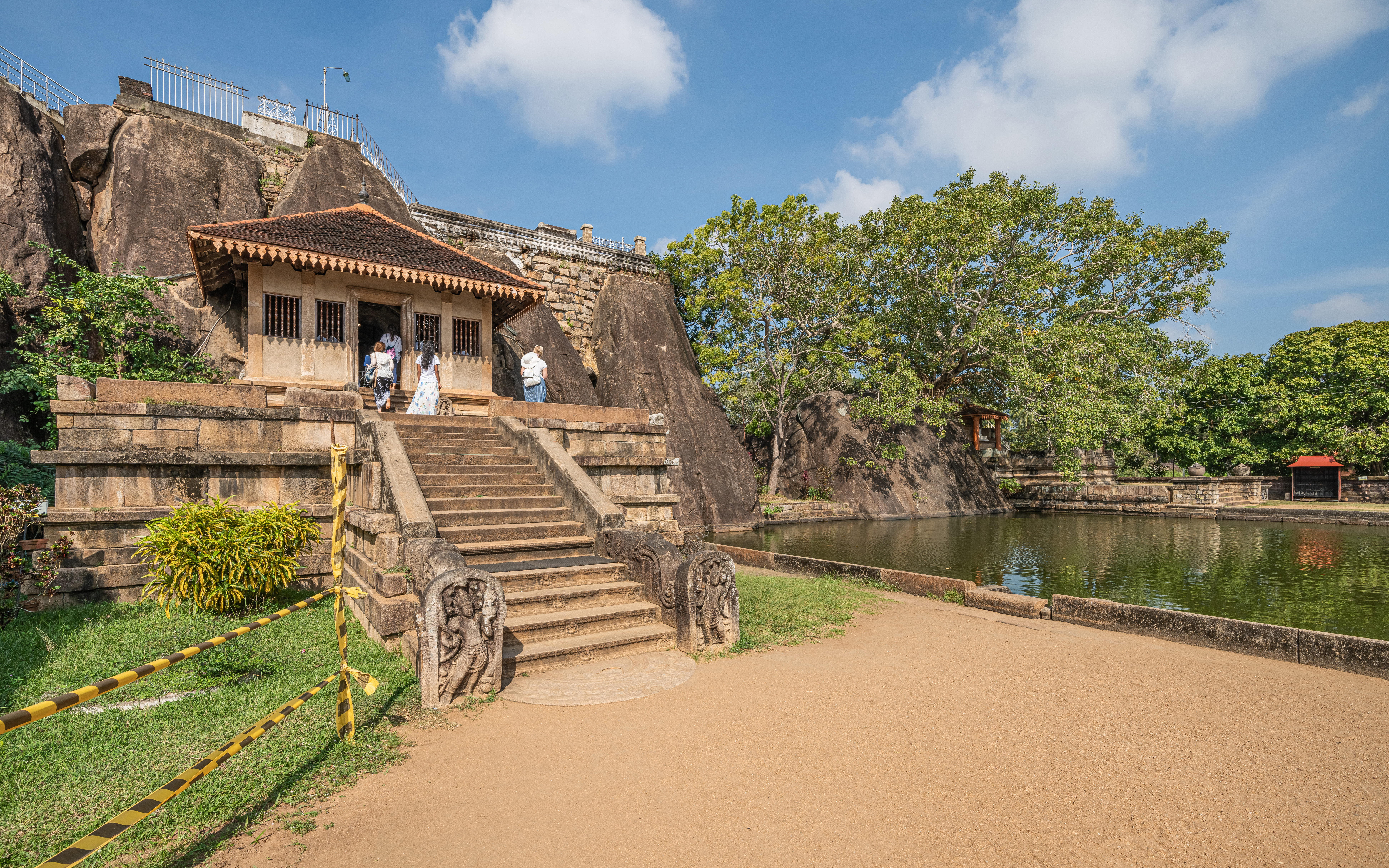 Isurumuniya temple complex in Anuradhapura, Sri Lanka